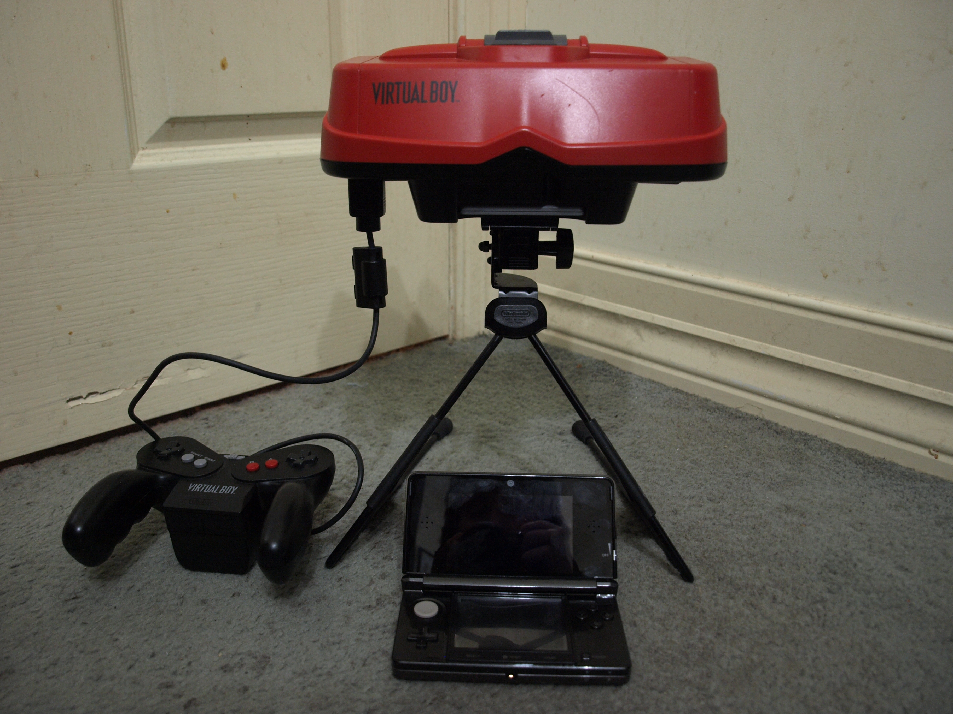 Another picture showing both the Virtual Boy video game console and the Nintendo 3DS handheld. Both of these systems have a 3D display, though do it very differently to each other.